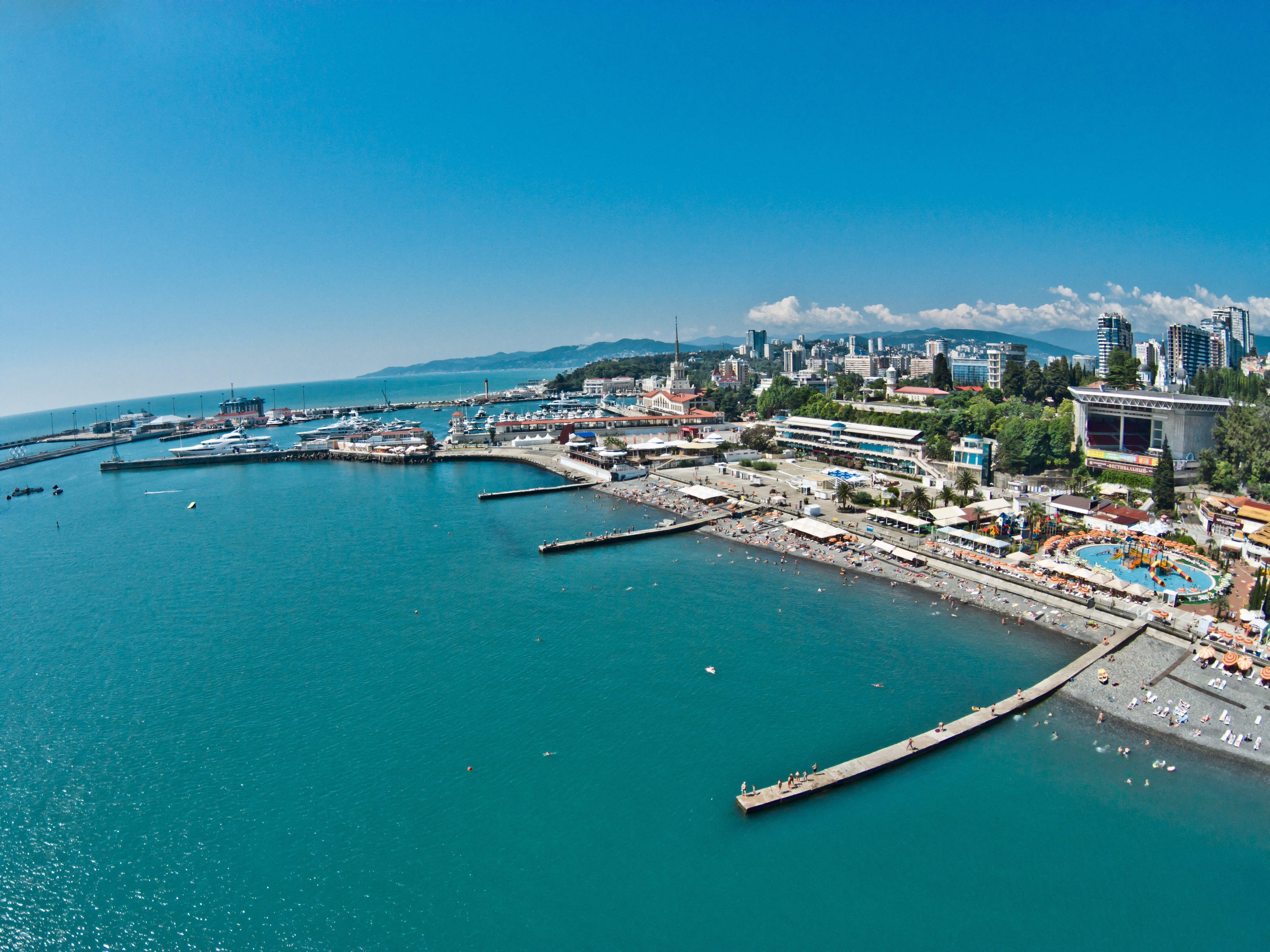 Mayak beach and Sochi Lighthouse. Hight of aerial photograph: 35 m. 26.06.2017